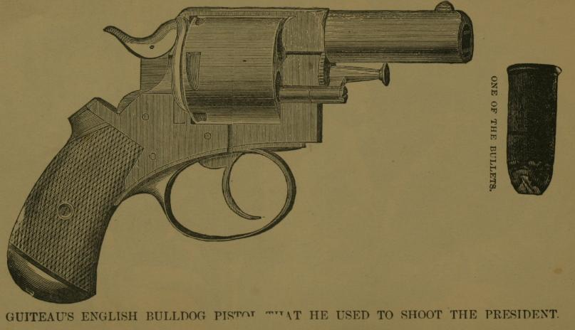 Illustration of the pistol of Charles Guiteau.